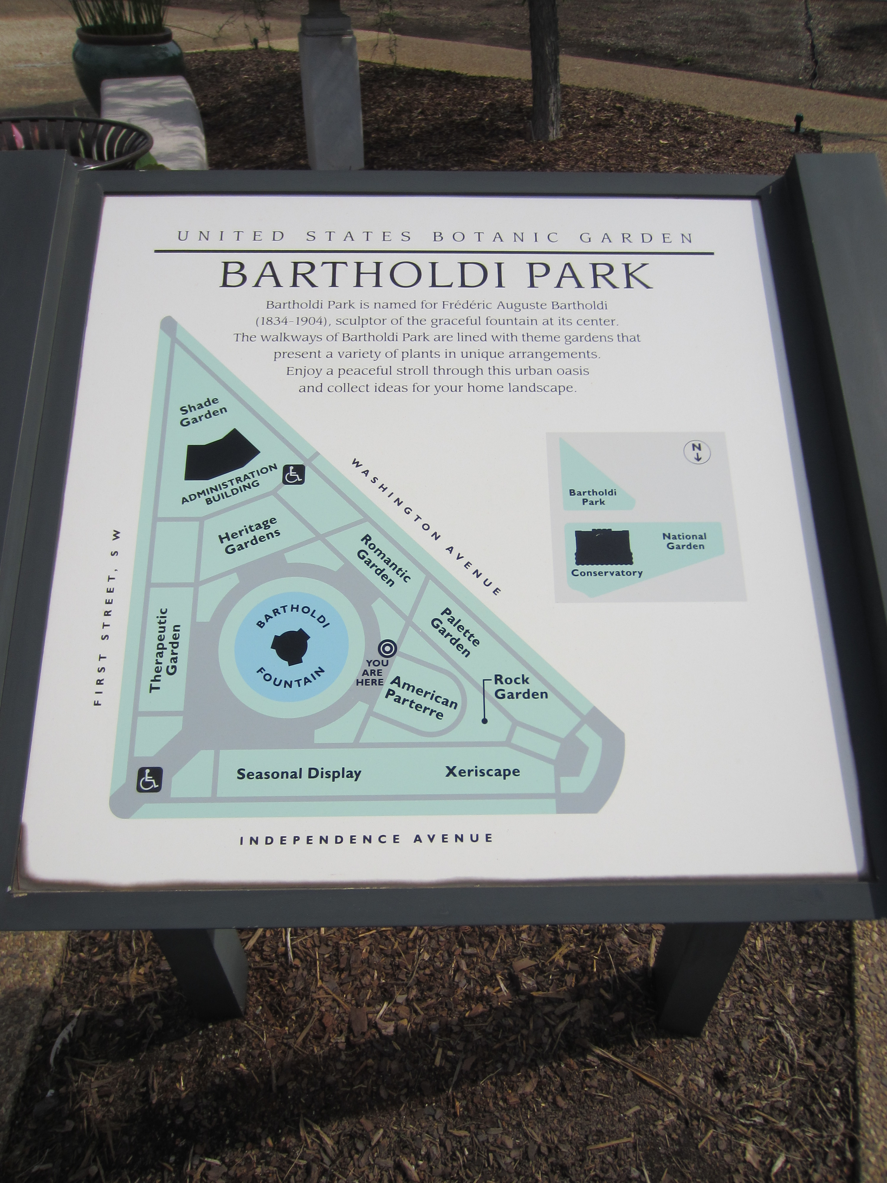 Bartholdi Park, United States Botanic Garden in Washington, D.C. in 2012